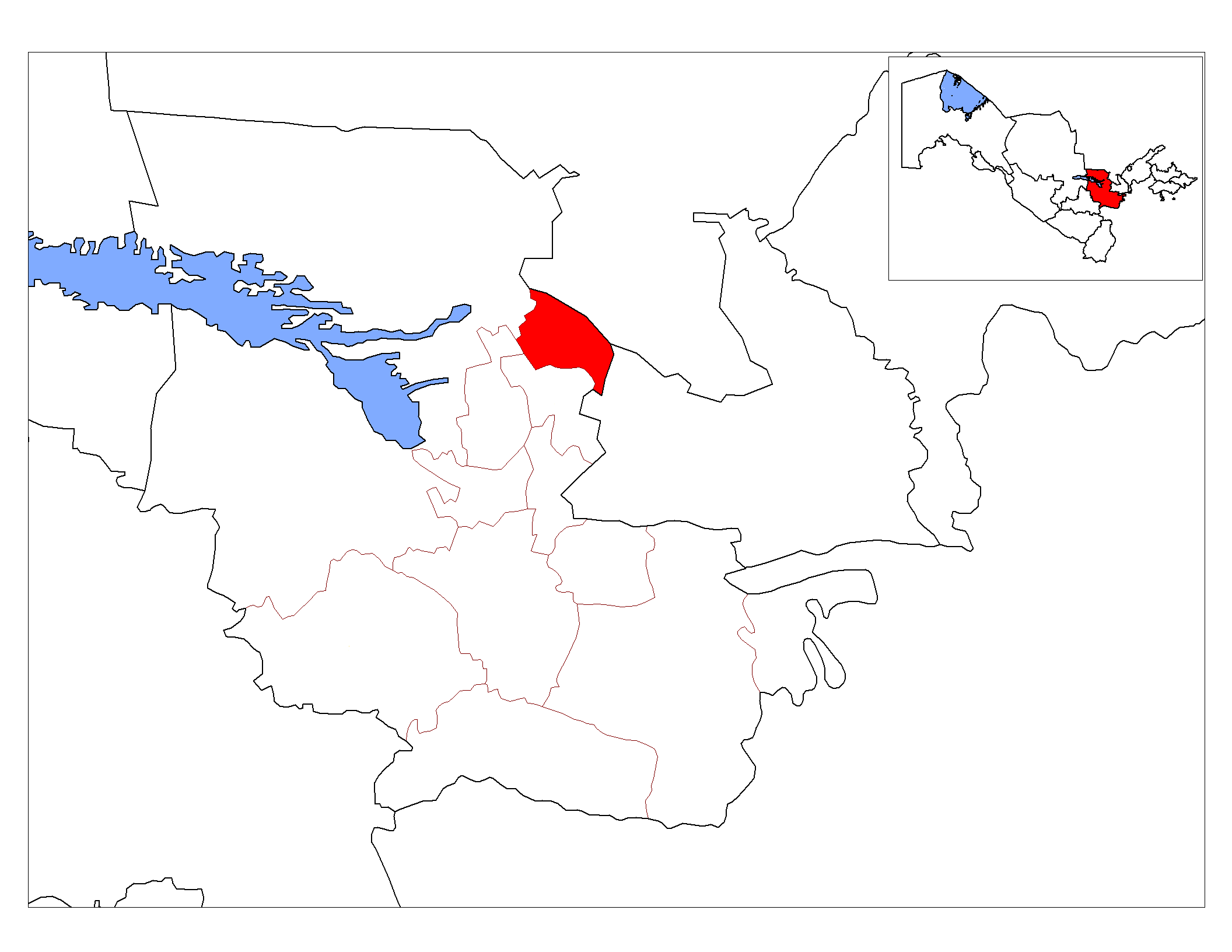 Location map of Mirzacho’l District in Jizzax Province, Uzbekistan